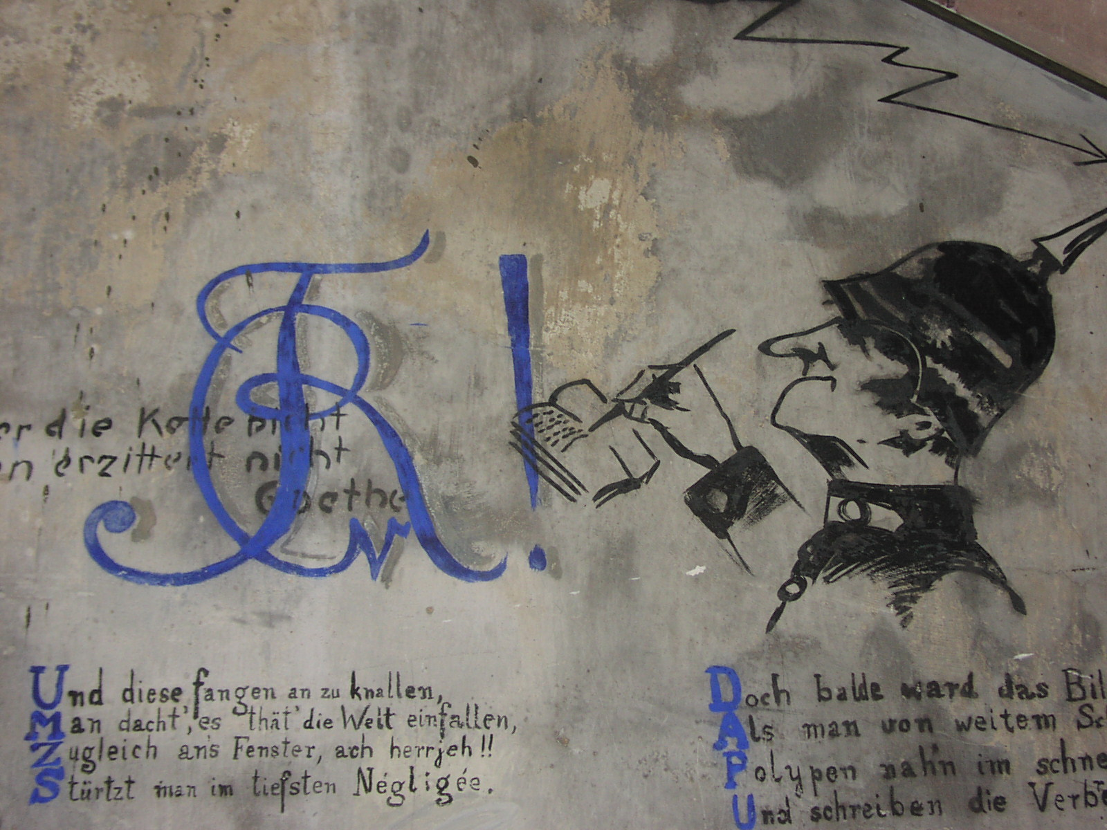 Part of the student prison of the University of Heidelberg.